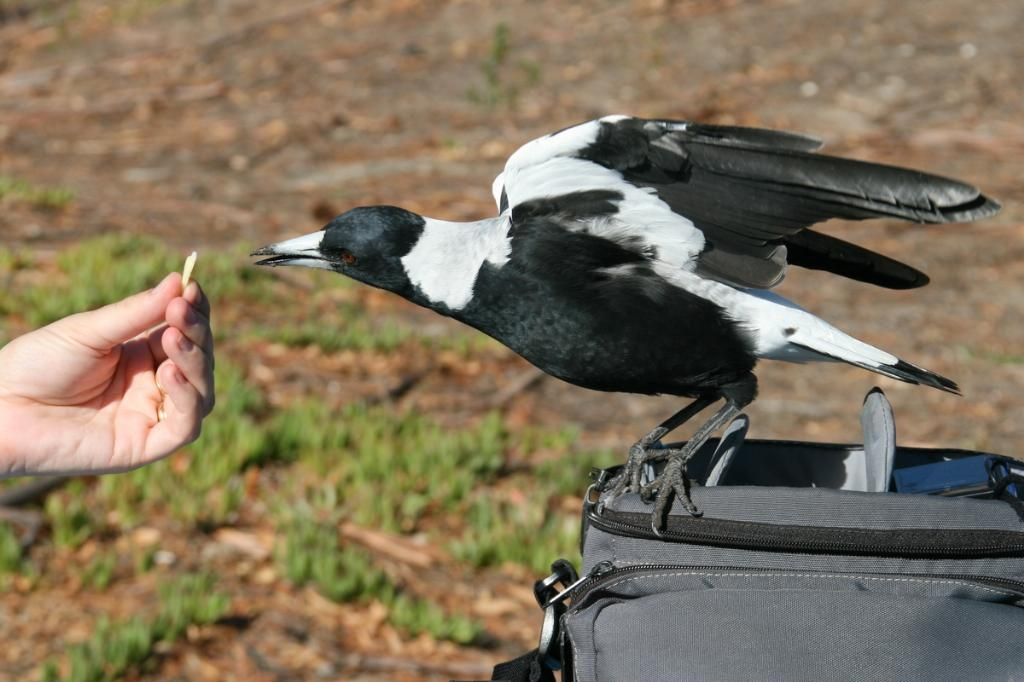 Tasmanian Magpie being given food